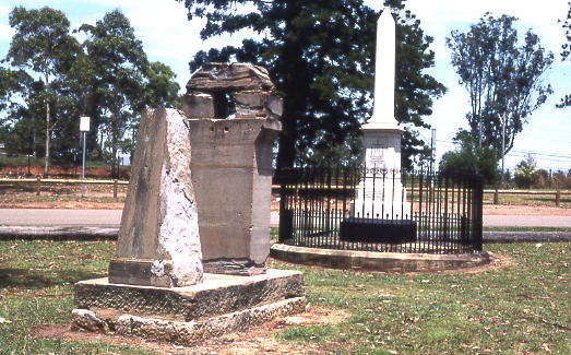 Remains of observatory, Parramatta Park, Parramatta, Sydney (Kodachrome slide scanned at low res)Parramatta, New South Wales 07:58, 30 August 2007 (UTC)